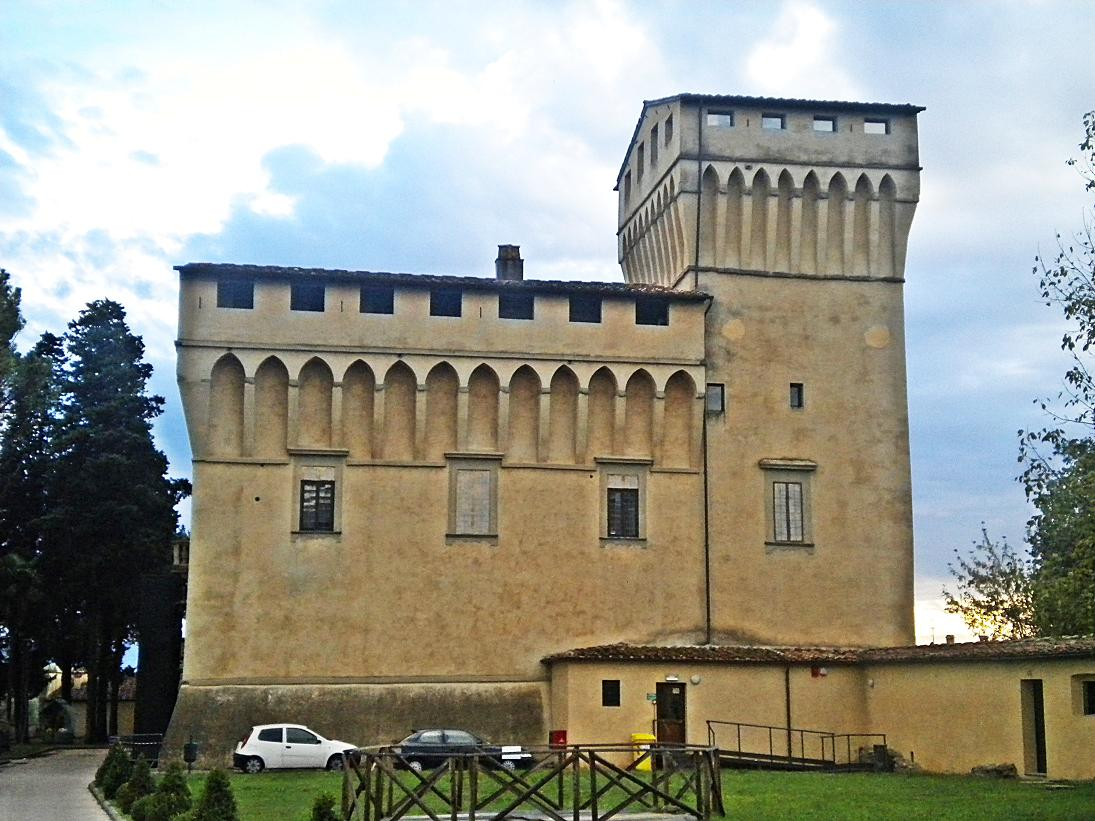 Villa Smilea